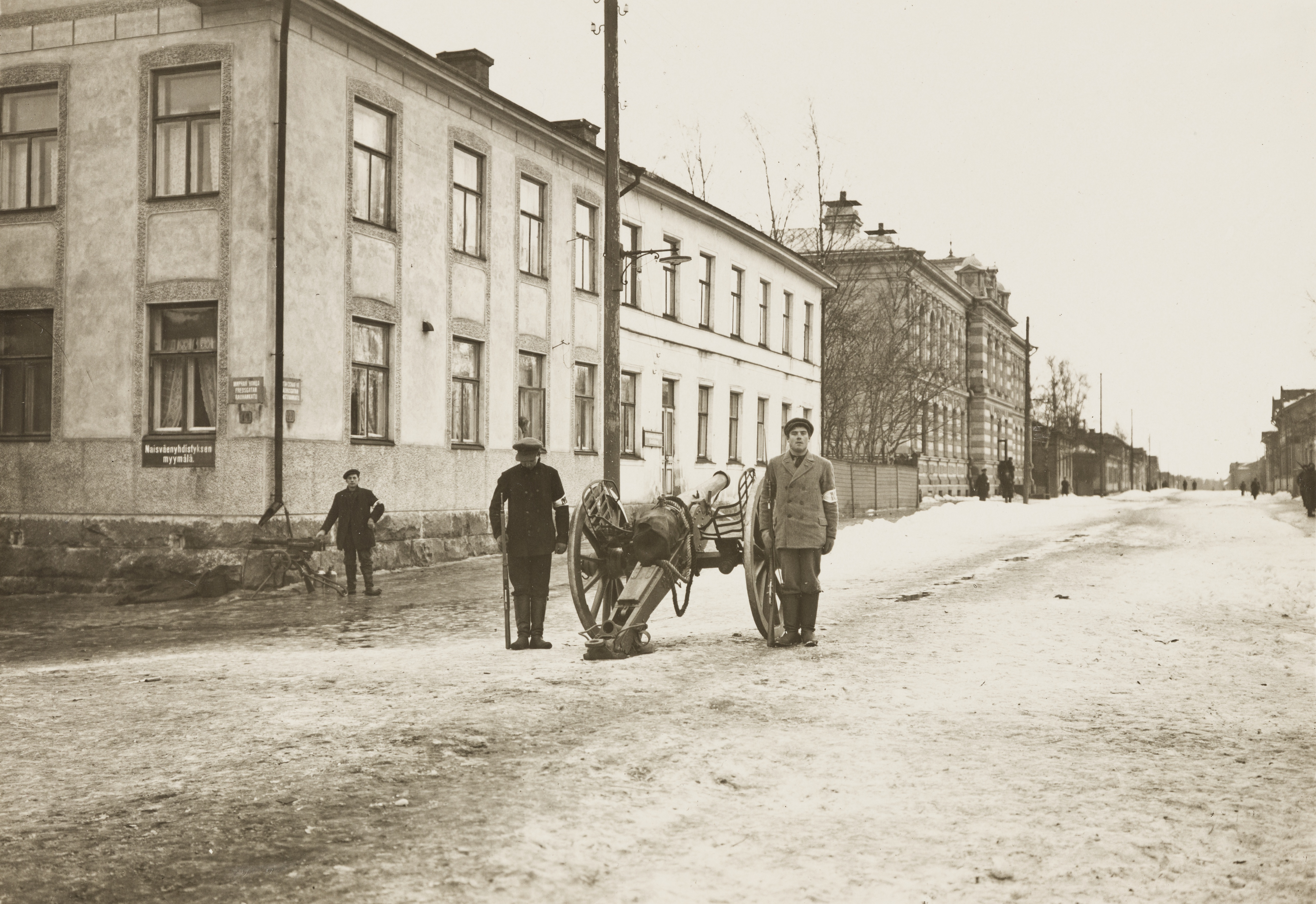 1918 Finnish Civil War White Guard soldiers in Vaasa.